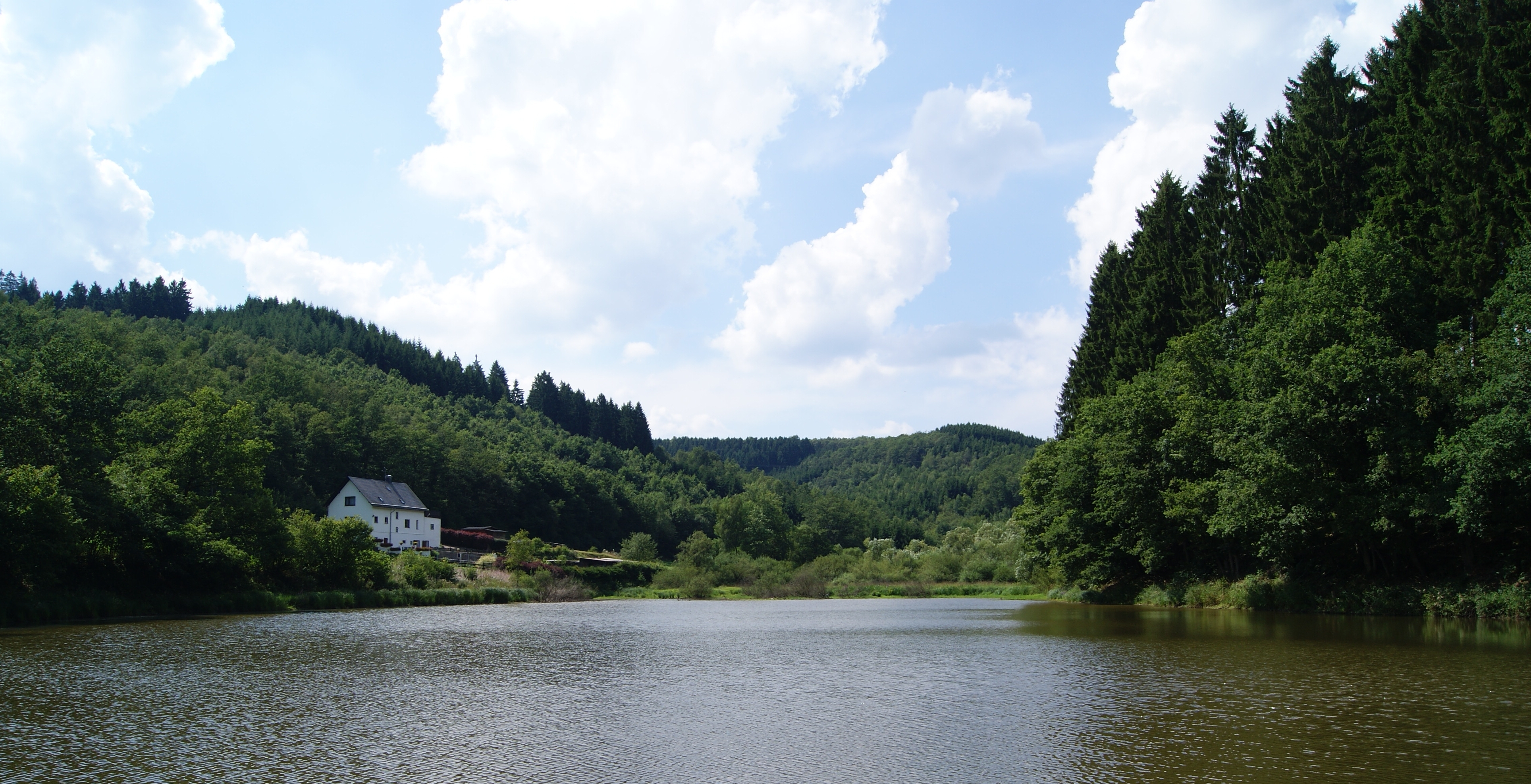 Lake Asdorf, Germany.